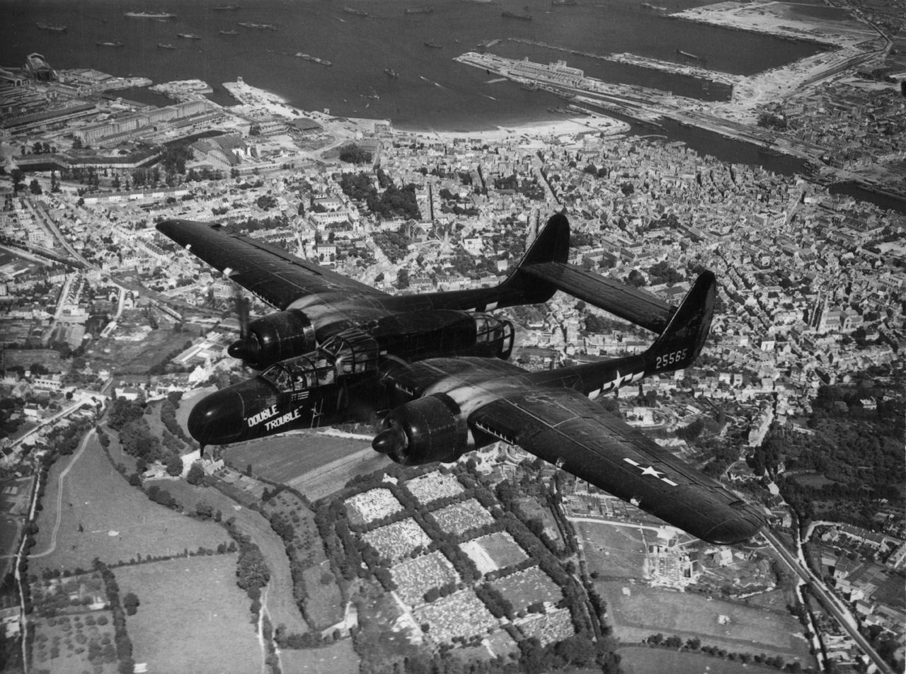 A P-61 Black Widow (serial number 42-5565) nicknamed "Double Trouble" of the 422nd Night Fighter Squadron. Image stamped on reverse: 'Charles E Brown.' [stamp], 'Passed for publication 7 Sept 1944.' [stamp], 'Passed for publivation 24 Nov 1944.' [stamp] and '356696.'[Censor no.] Printed caption on reverse: 'Northrup P-61 Black Widow Night Fighter.'